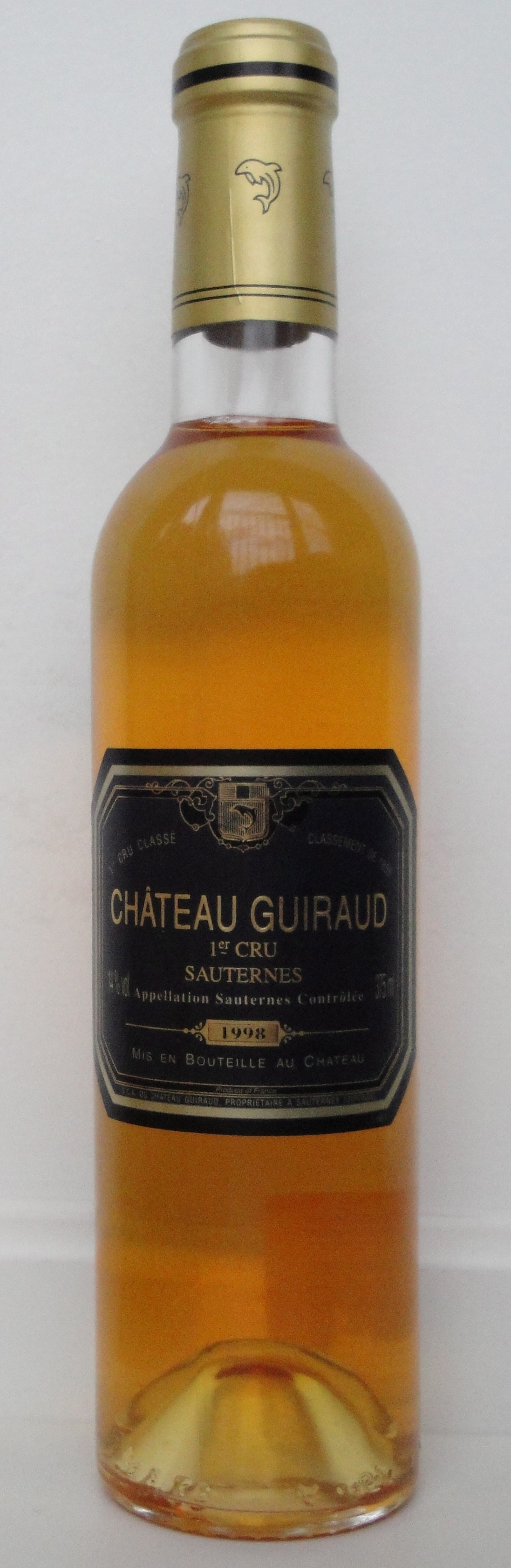 Half bottle of 1998 Château Guiraud, a wine from Sauternes in Bordeaux, classified as a First Growth in the 1855 Bordeaux classification.